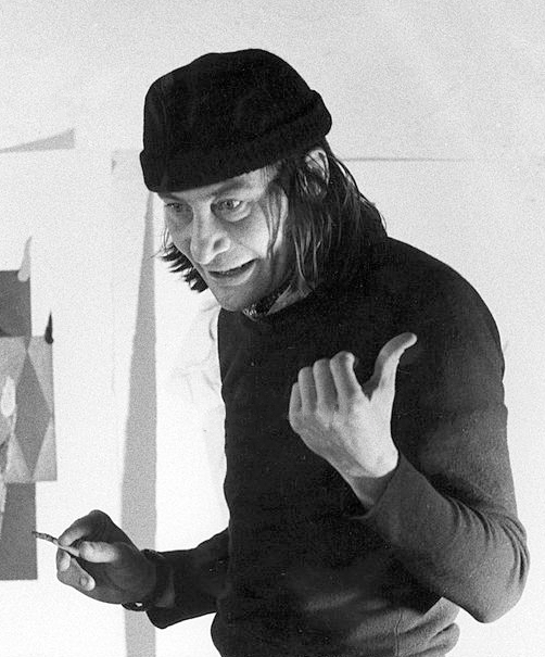 Aldo Mondino smoking in his atelier near his works of art. Paris, 1975.